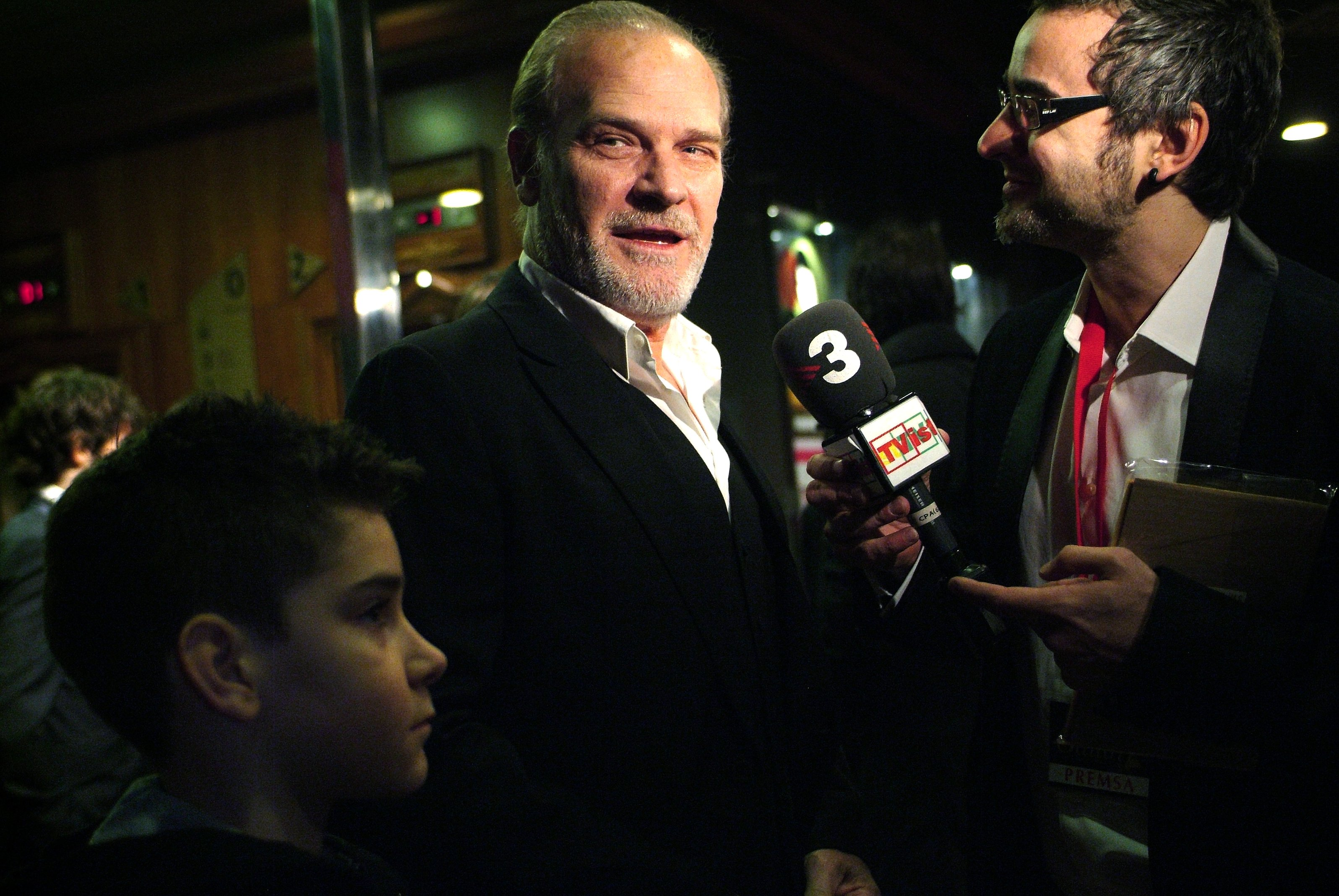 Photo of Lluís Homar in the soiree of Gaudí Awards 2011